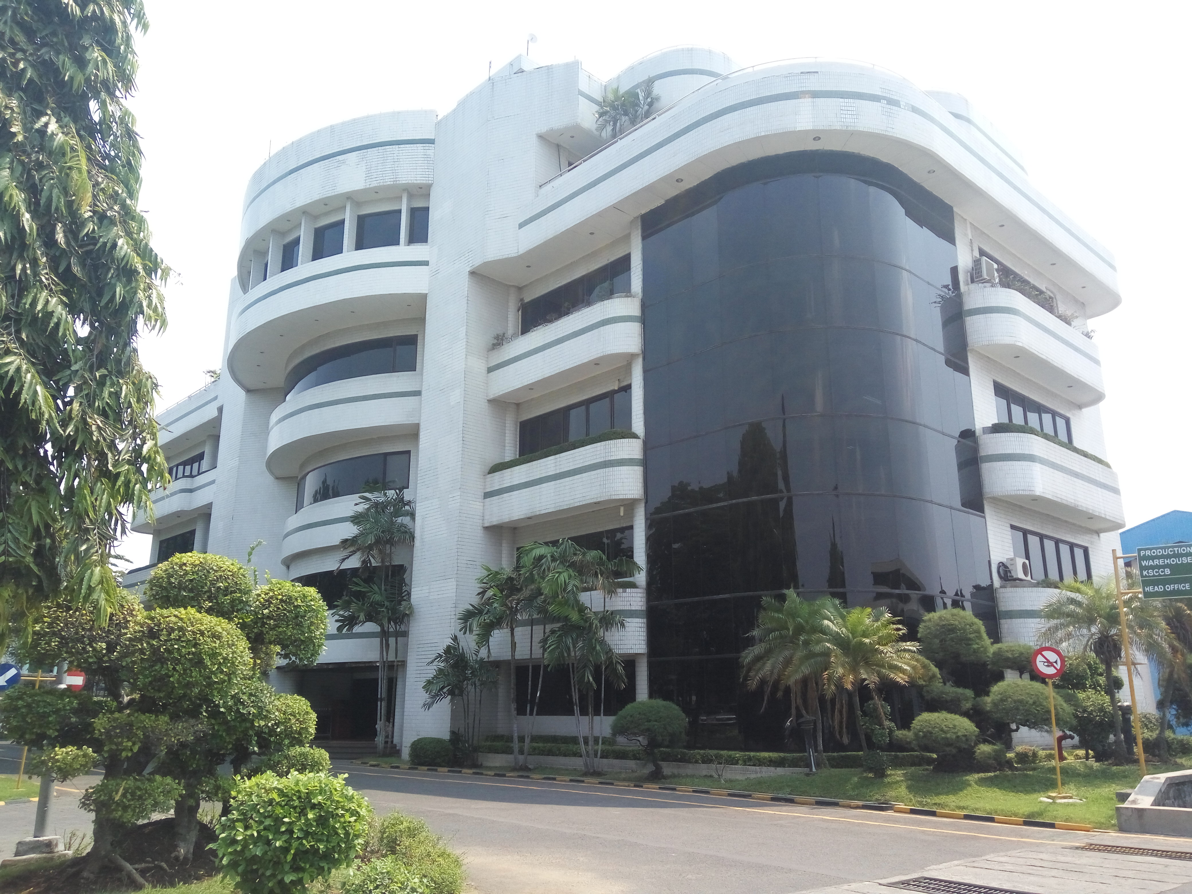 Headquarters of Kedawung Setia Industrial 2018-08-22